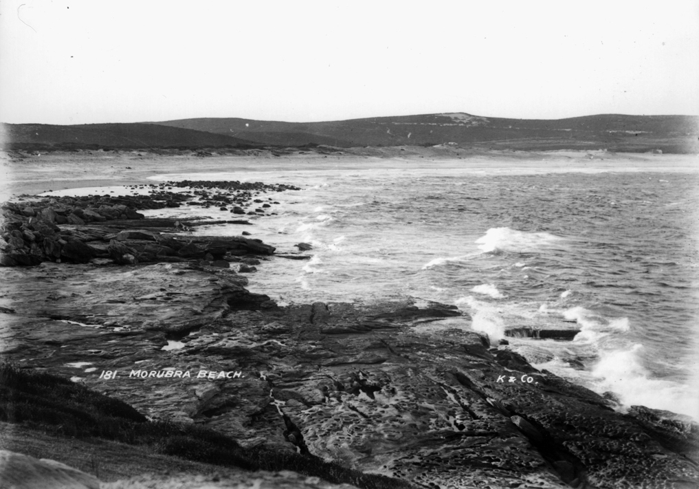 'Beaches' Pictures from The Powerhouse Museum This files was posted to Flickr by The Powerhouse Museum (See their website for further information). Many thanks to the Powerhouse Museum for helping release this wonderful material. This tag does not indicate the copyright status of the attached work. A normal copyright tag is still required. See Commons:Licensing for more information. This image is of Australian origin and is now in the public domain because its term of copyright has expired. According to the Australian Copyright Council (ACC), ACC Information Sheet G023v17 (Duration of copyright) (August 2014). Type of materialCopyright has expired if ... A Photographs or other works published anonymously, under a pseudonym or the creator is unknown:taken or published prior to 1 January 1955 B Photographs (except A):taken prior to 1 January 1955 C Artistic works (except A & B):the creator died before 1 January 1955 D Published editions1 (except A & B):first published more than 25 years ago E Commonwealth or State government owned2 photographs and engravings:taken or published more than 50 years ago and prior to 1 May 1969 1 means the typographical arrangement and layout of a published work. eg. newsprint. 2owned means where a government is the copyright owner as well as would have owned copyright but reached some other agreement with the creator. When using this template, please provide information of where the image was first published and who created it.